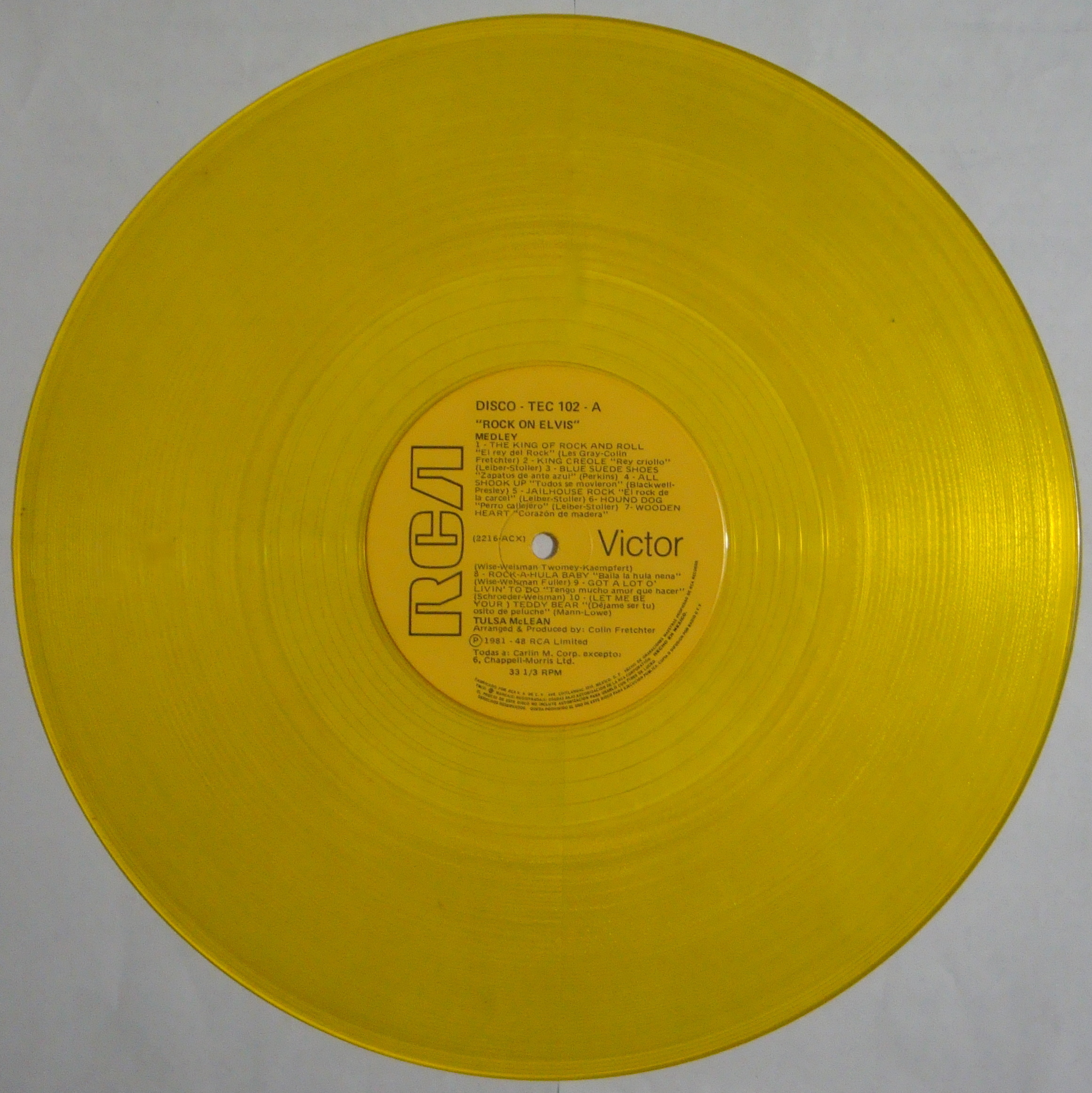 Yellow vinyl disc.